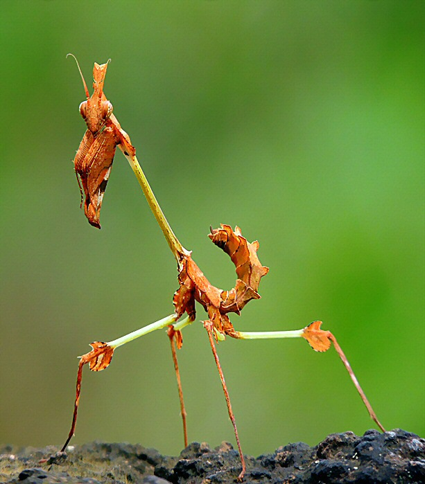 Pre-Subadult Wandering Violin Mantis (Gongylus gongylodes) At Mangaon, Maharashtra, India